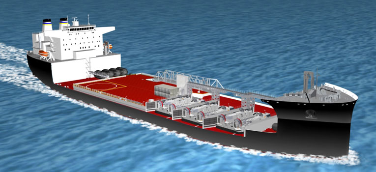 Computer-generated picture of the Mobile Landing Platform.